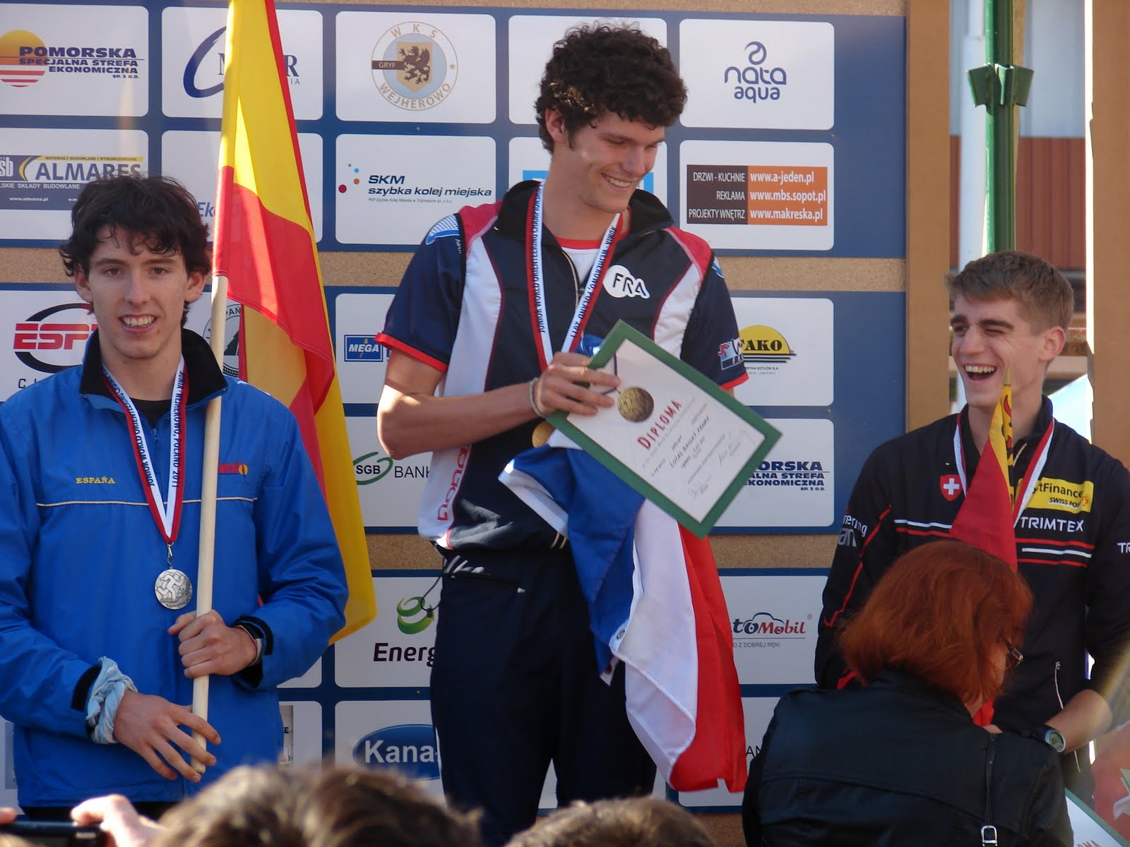 JWOC 2011. sprint medalists: 1) Lucas Basset (France), 2) Andreu Blanes (Spain), 3) Florian Howald (Switzerland)